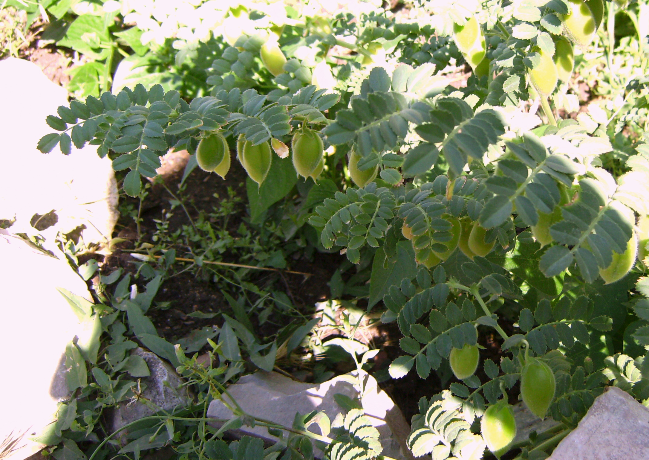 Chickpea, cultivar La Bañeza, green pods growing at Castelltallat Catalonia